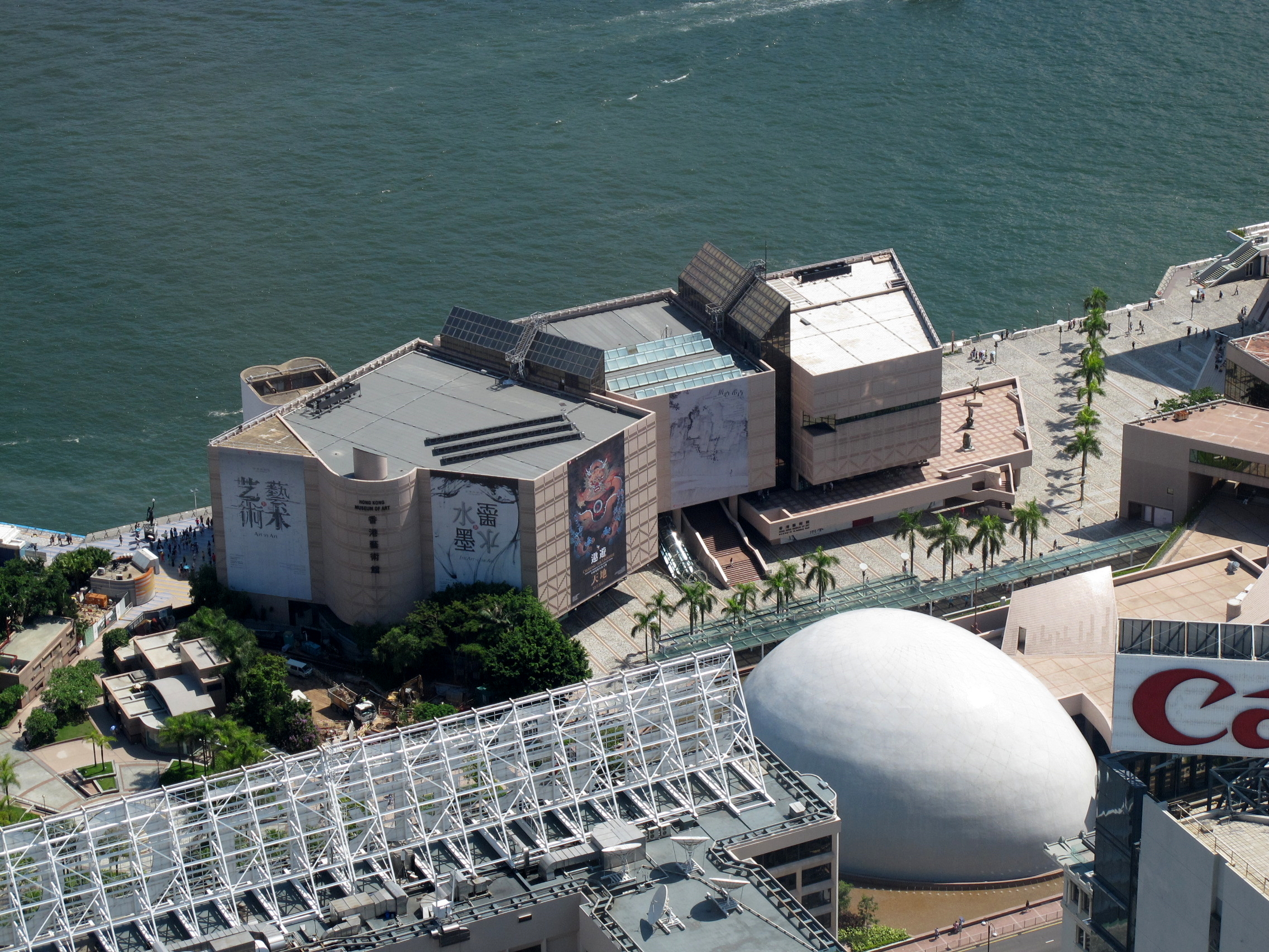 Hong Kong Museum of Art 香港藝術館